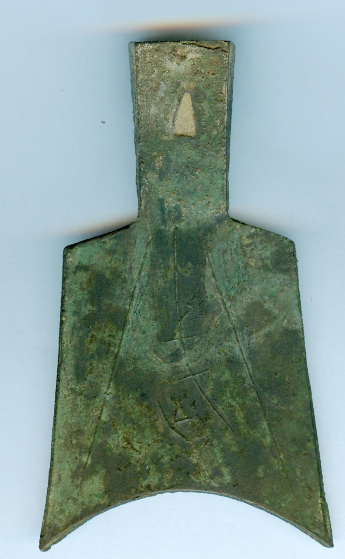 Sloping Shoulder Spade money of c. 400-300 BC. San Chuan Jin